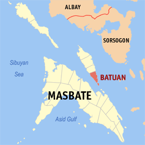 Map of Masbate showing the location of Batuan